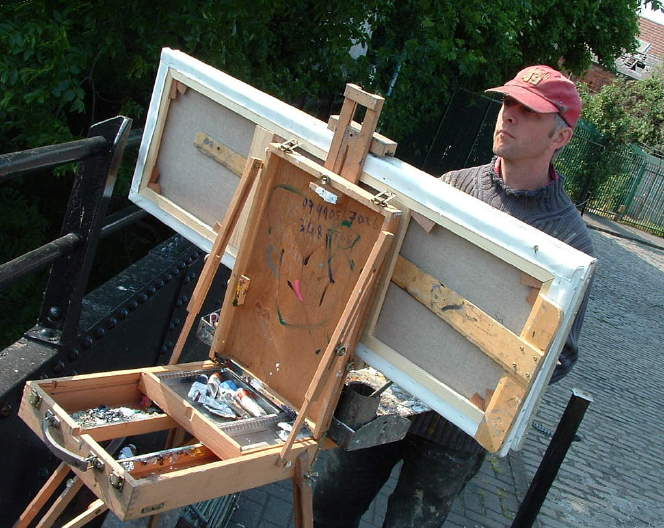 I am the rights owner of this image.